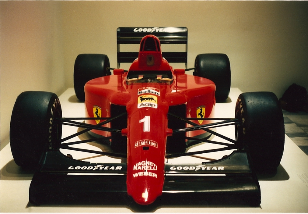 Alain Prost's Ferrari 641 on display at the New York Museum of Modern Art.